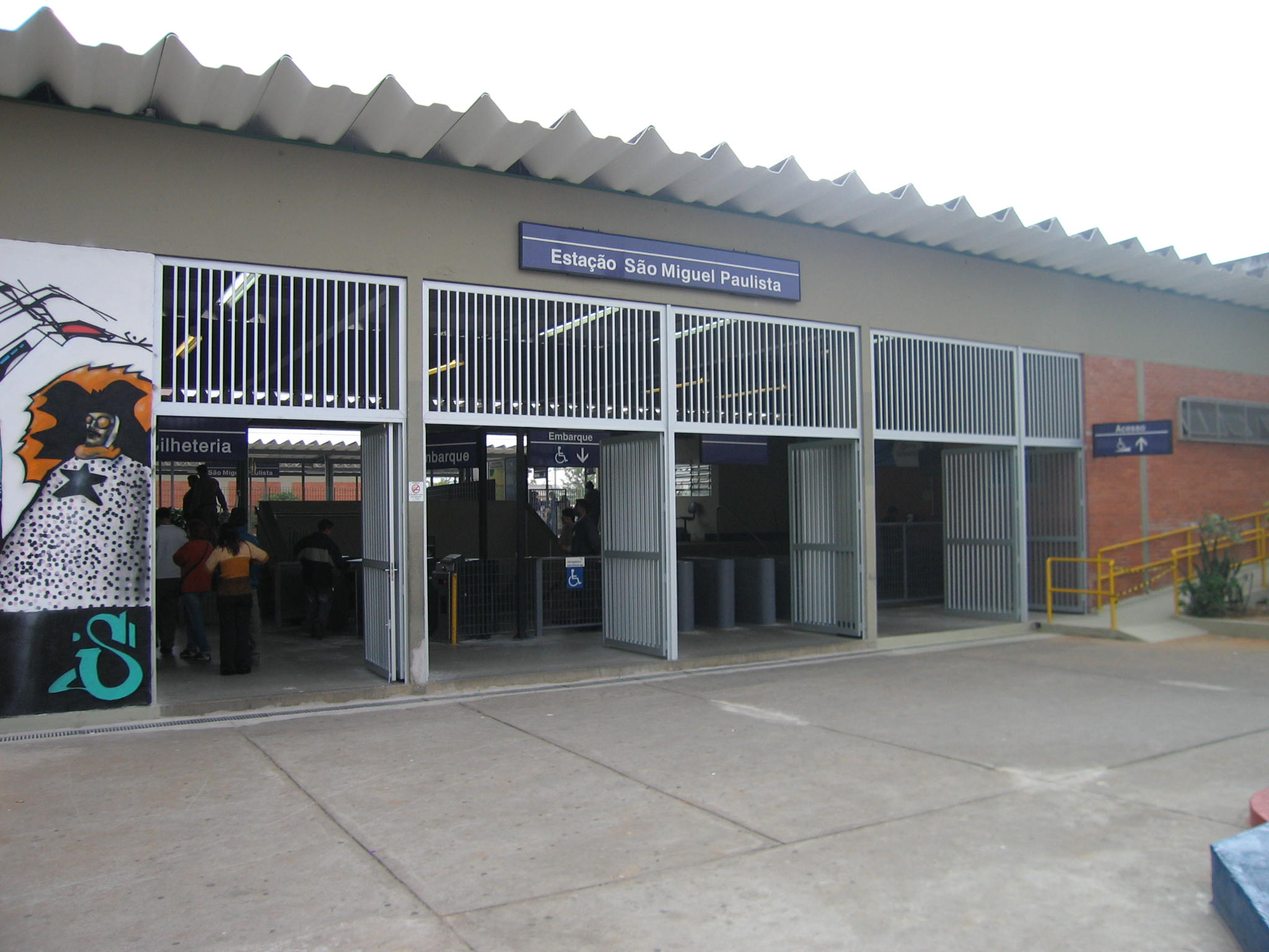 São Miguel Paulista train station, São Paulo city, São Paule state, Brazil